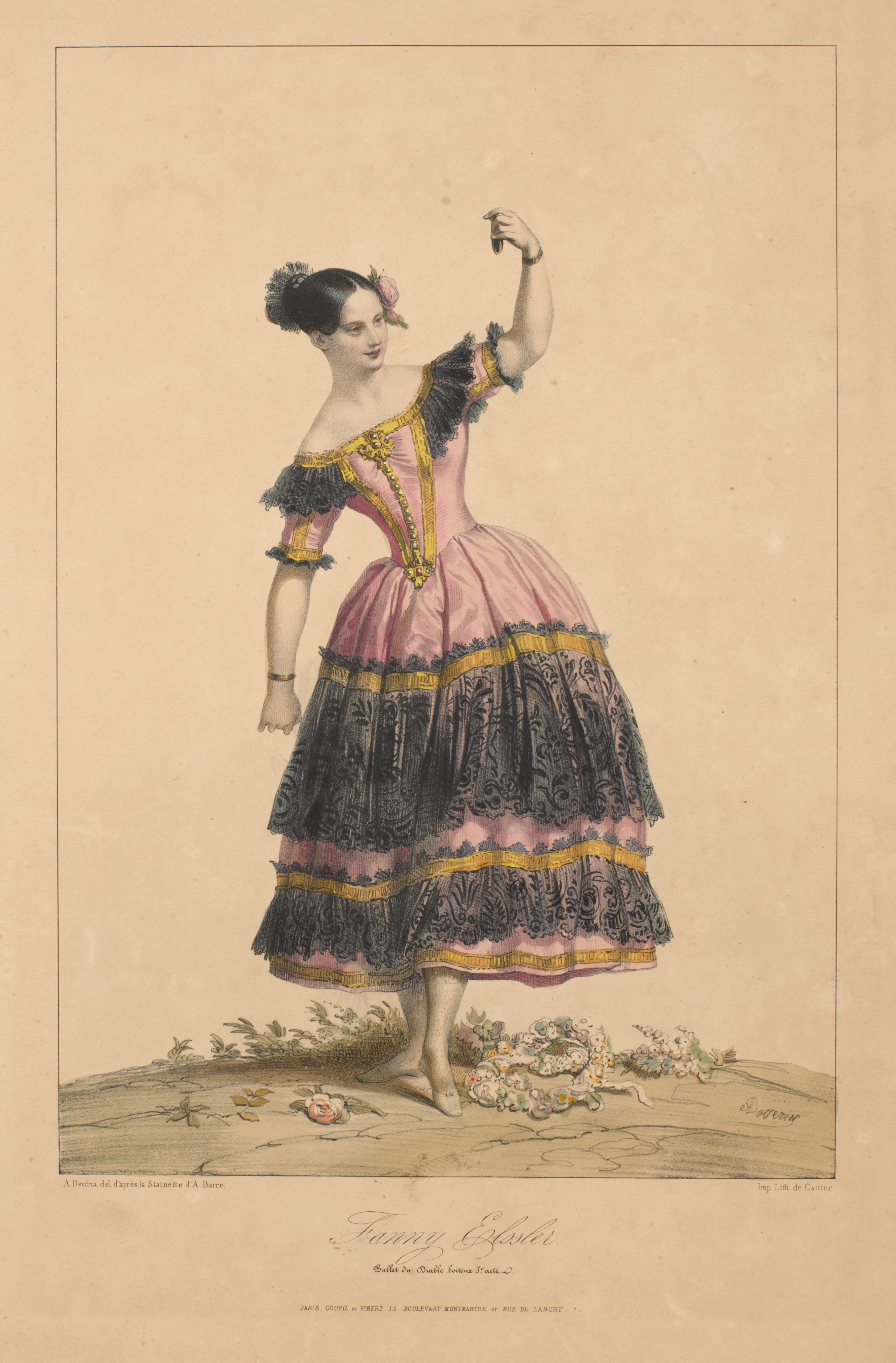 Elssler full length to front, looking right, her left foot front pointe tendue. She is holding castanets, her left arm extended and curving upward.